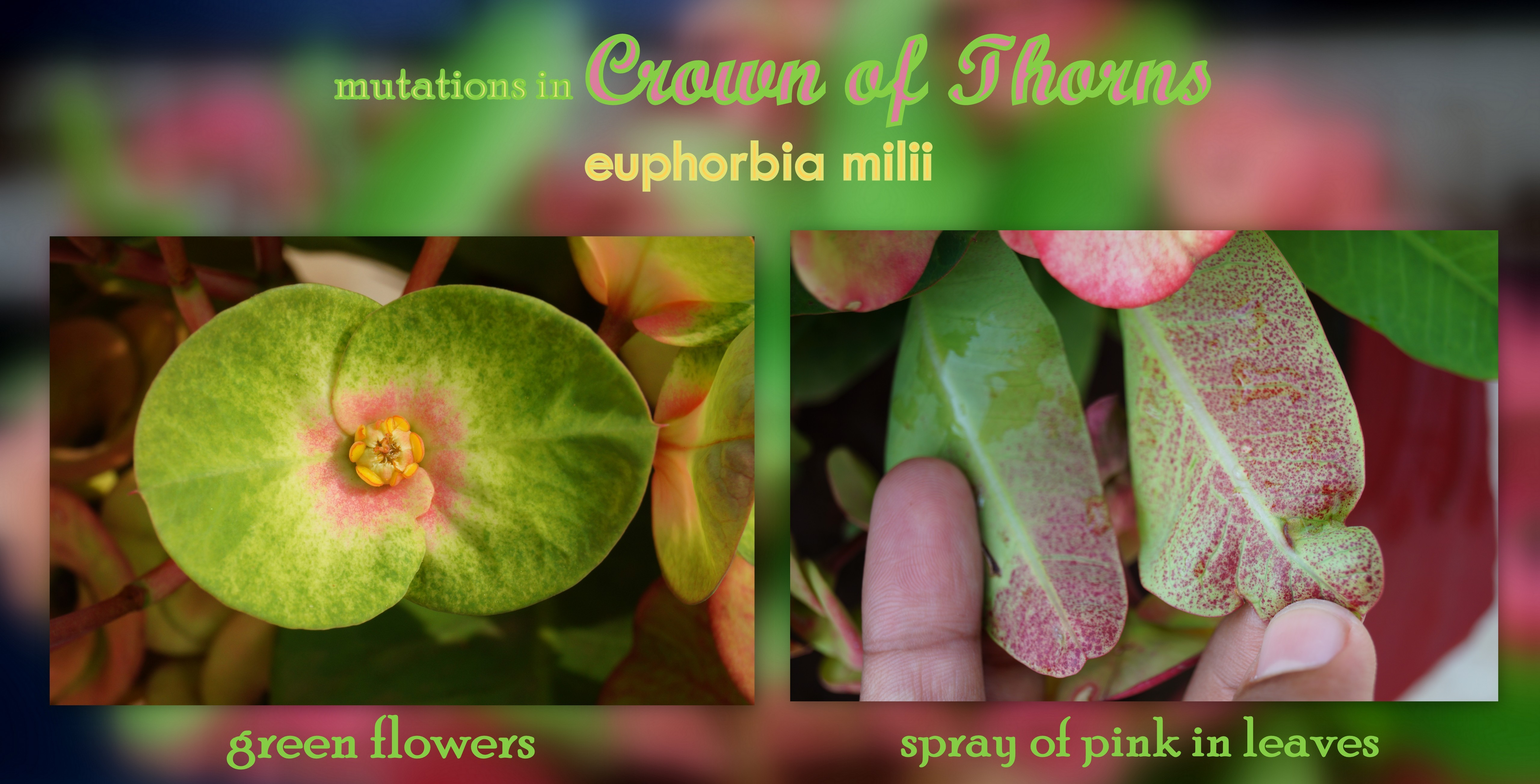 mutant leaves and flowers in Euphorbia